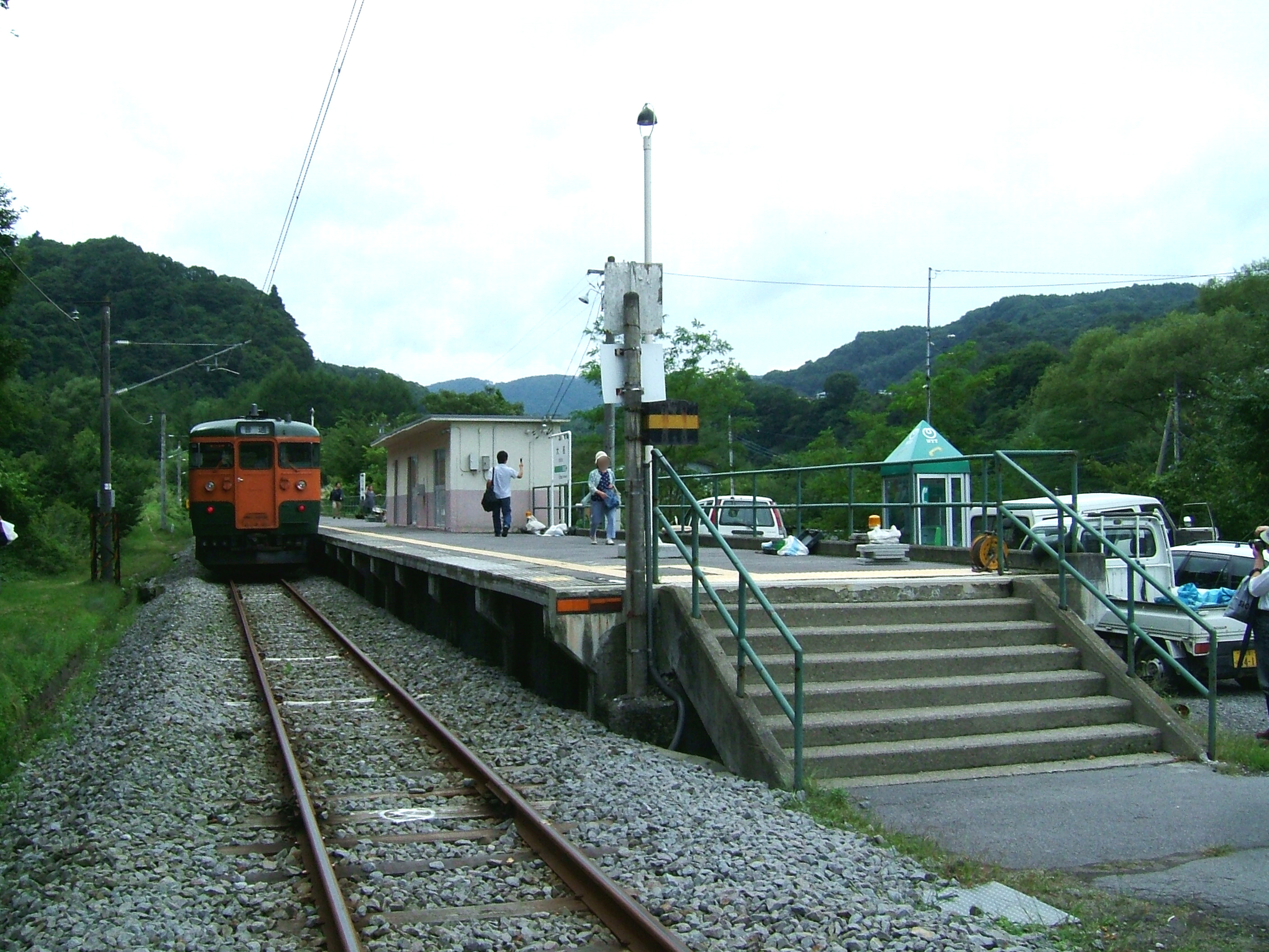 Ōmae Station (East Japan Railway Agatsuma Line)